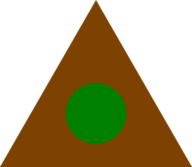 brown equilateral triangle with a smaller green circle in it